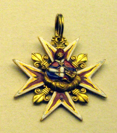 The Badge of the Order of Saint Januarius of the 1st class. mid 19th c. Belonged to A.I. Barjatinskiy. Принадлежал генерал-фельдмаршалу А.И. Барятинскому